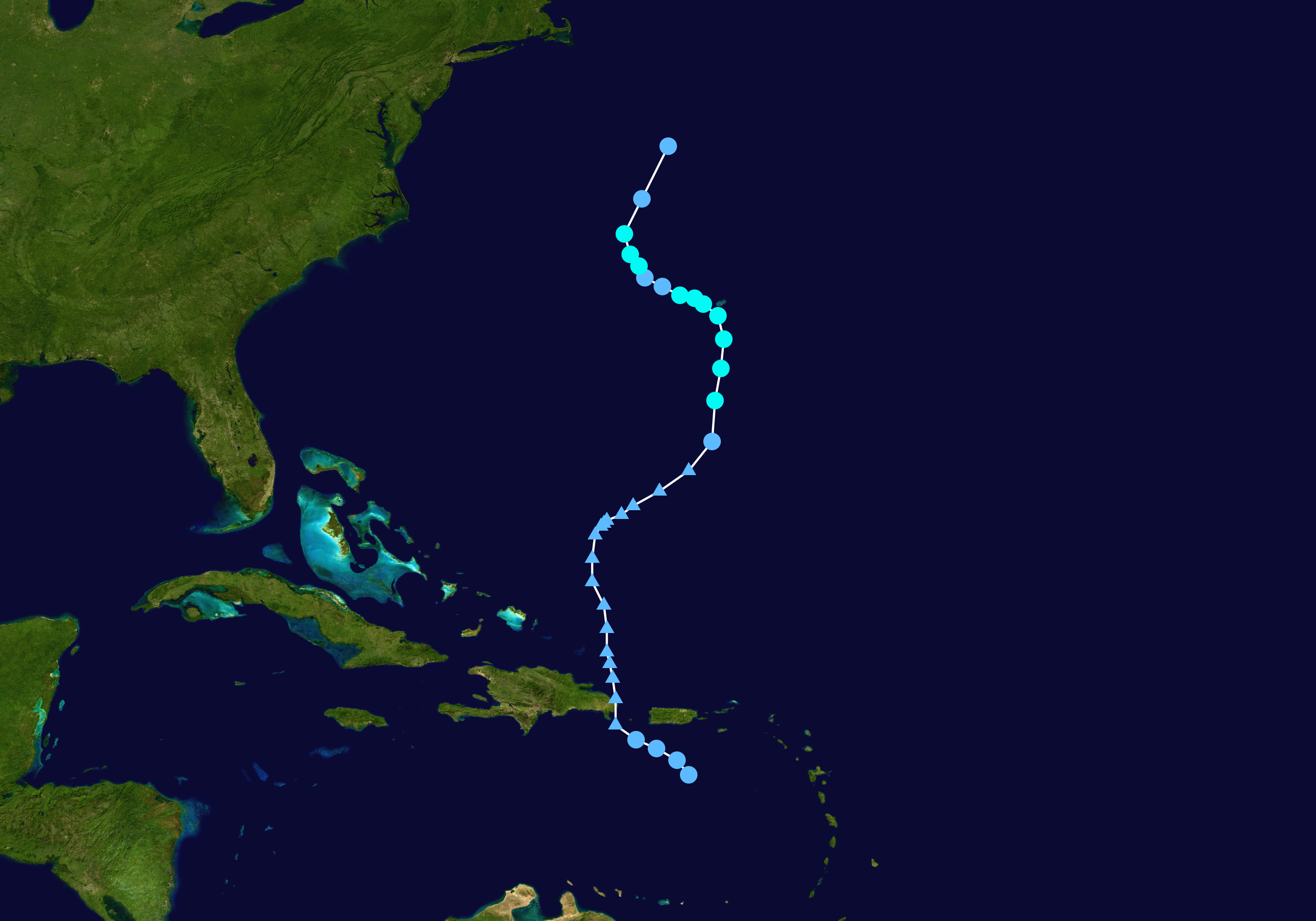 Track map of Tropical Storm Gabrielle of the 2013 Atlantic hurricane season. The points show the location of the storm at 6-hour intervals. The colour represents the storm's maximum sustained wind speeds as classified in the Saffir–Simpson scale (see below), and the shape of the data points represent the nature of the storm, according to the legend below. Saffir–Simpson scale Tropical depression≤38 mph≤62 km/h Category 3111–129 mph178–208 km/h Tropical storm39–73 mph63–118 km/h Category 4130–156 mph209–251 km/h Category 174–95 mph119–153 km/h Category 5≥157 mph≥252 km/h Category 296–110 mph154–177 km/h Unknown Storm type Tropical cyclone Subtropical cyclone Extratropical cyclone / Remnant low / Tropical disturbance / Monsoon depression